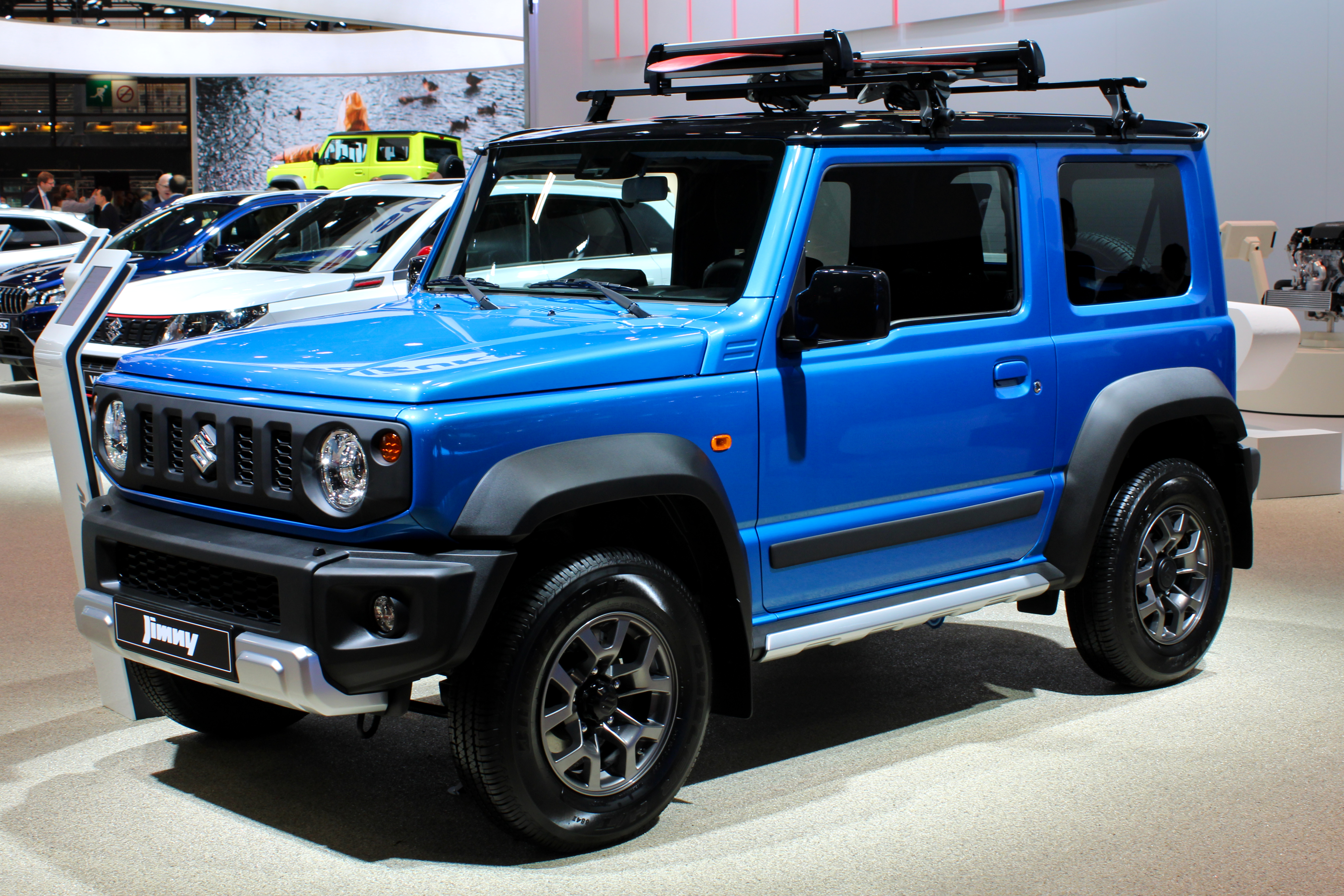 Suzuki Jimny at Paris Motor Show 2018